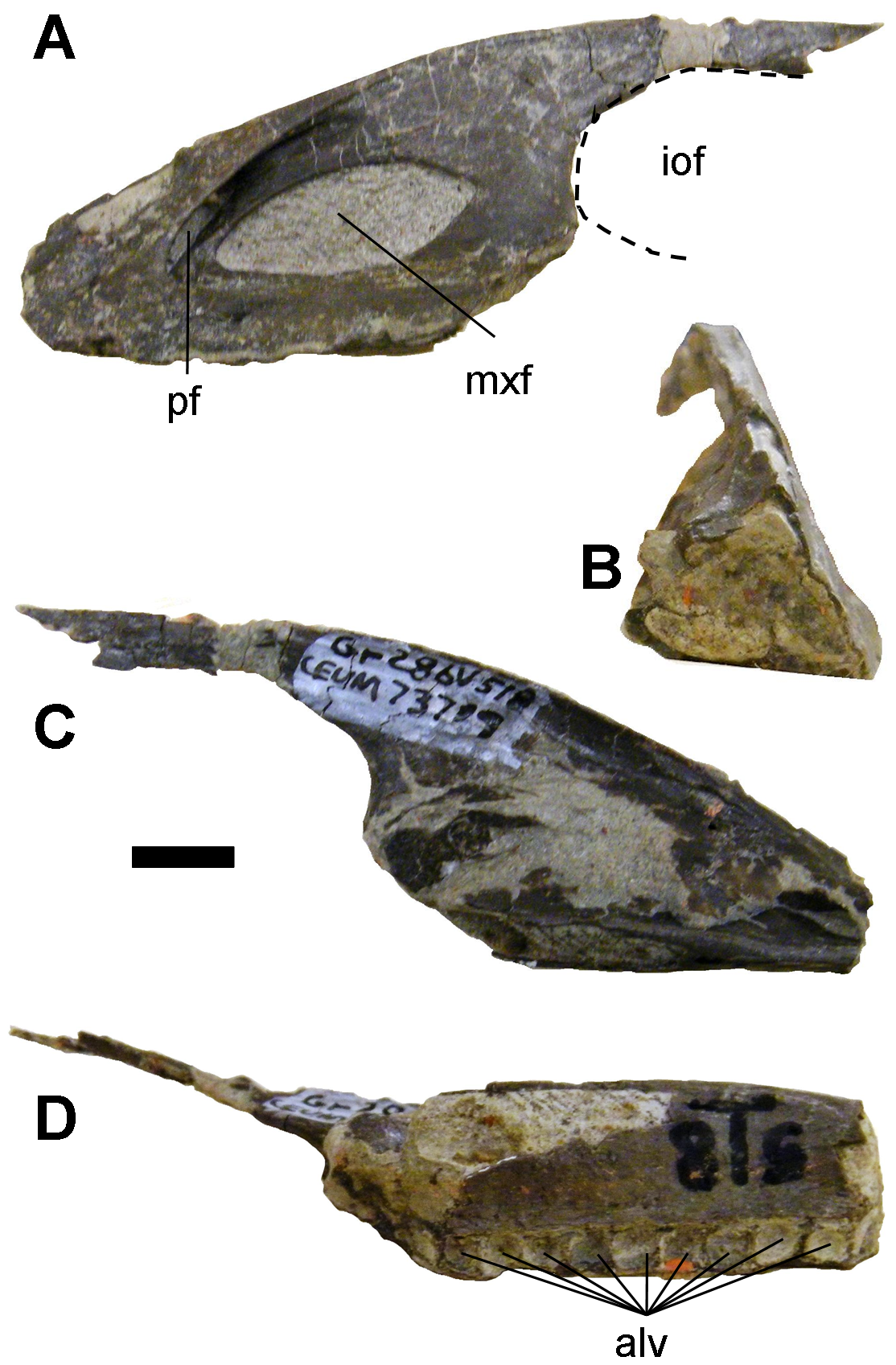 Maxilla of Geminiraptor suarezarum. (A)—Lateral view. (B)—Cranial view. (C)—Medial view. (D)—Ventral view. Scale bar = 10 mm. alv = dental alveoli, iof = internal antorbital fenestra, mxf = maxillary fenestra, pf = promaxillary fenestra.